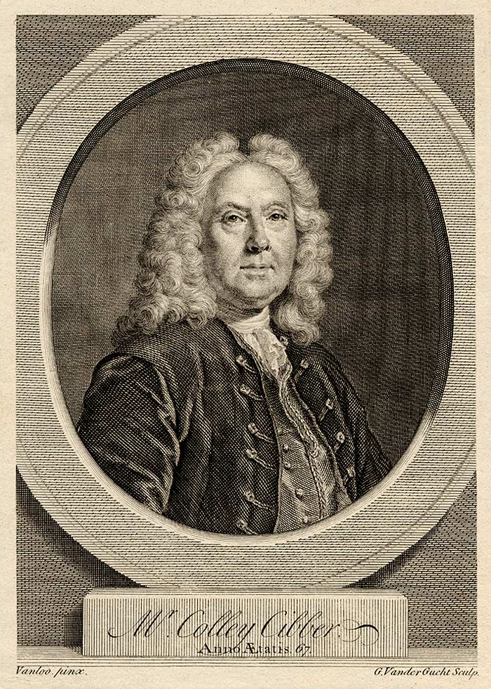 Colley Cibber by Gerard Van der Gucht, after Jean Baptiste van Loo, line engraving